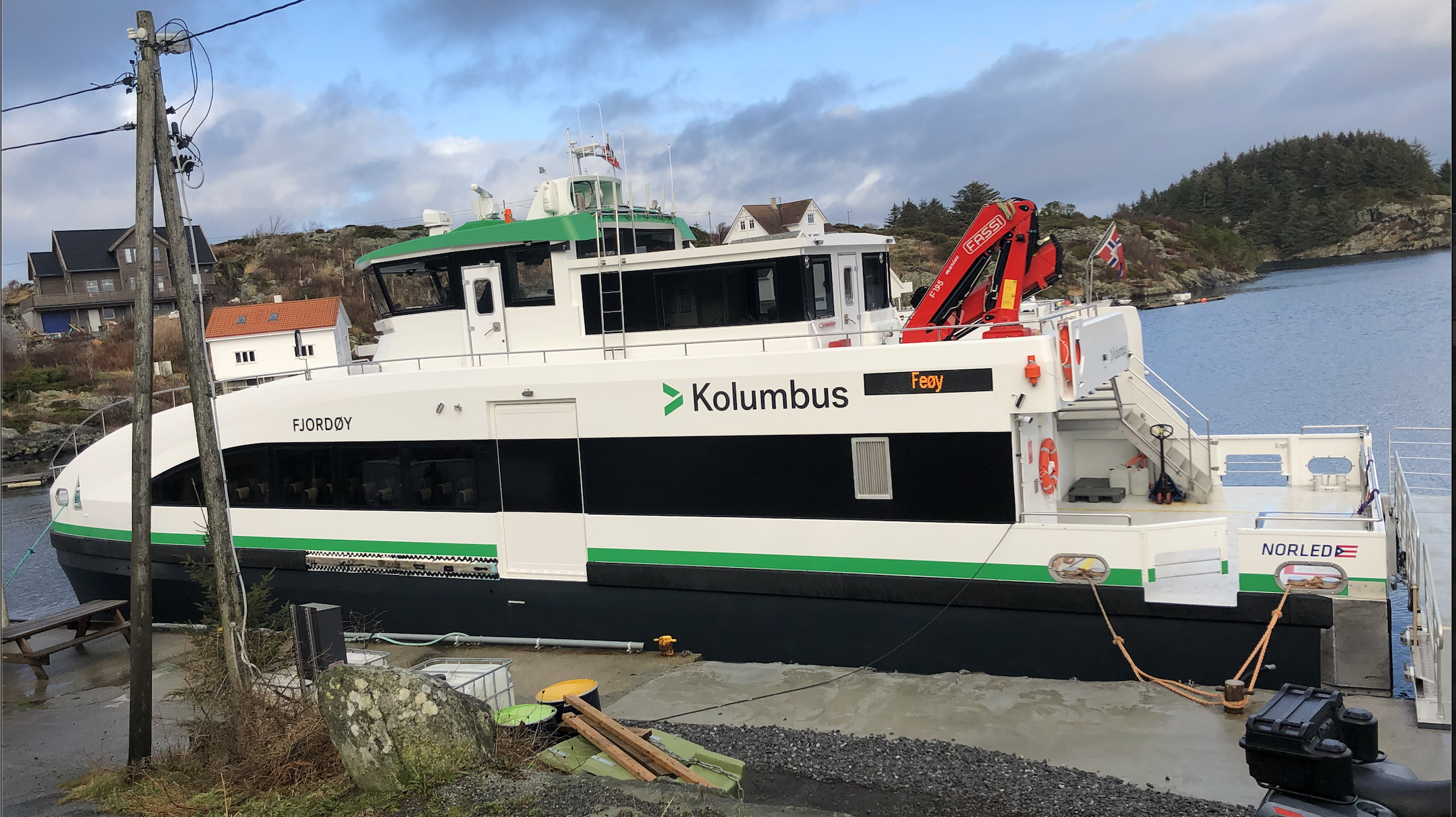 Fjordøy in Feøy Harbour between trips.